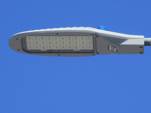 History of street lighting